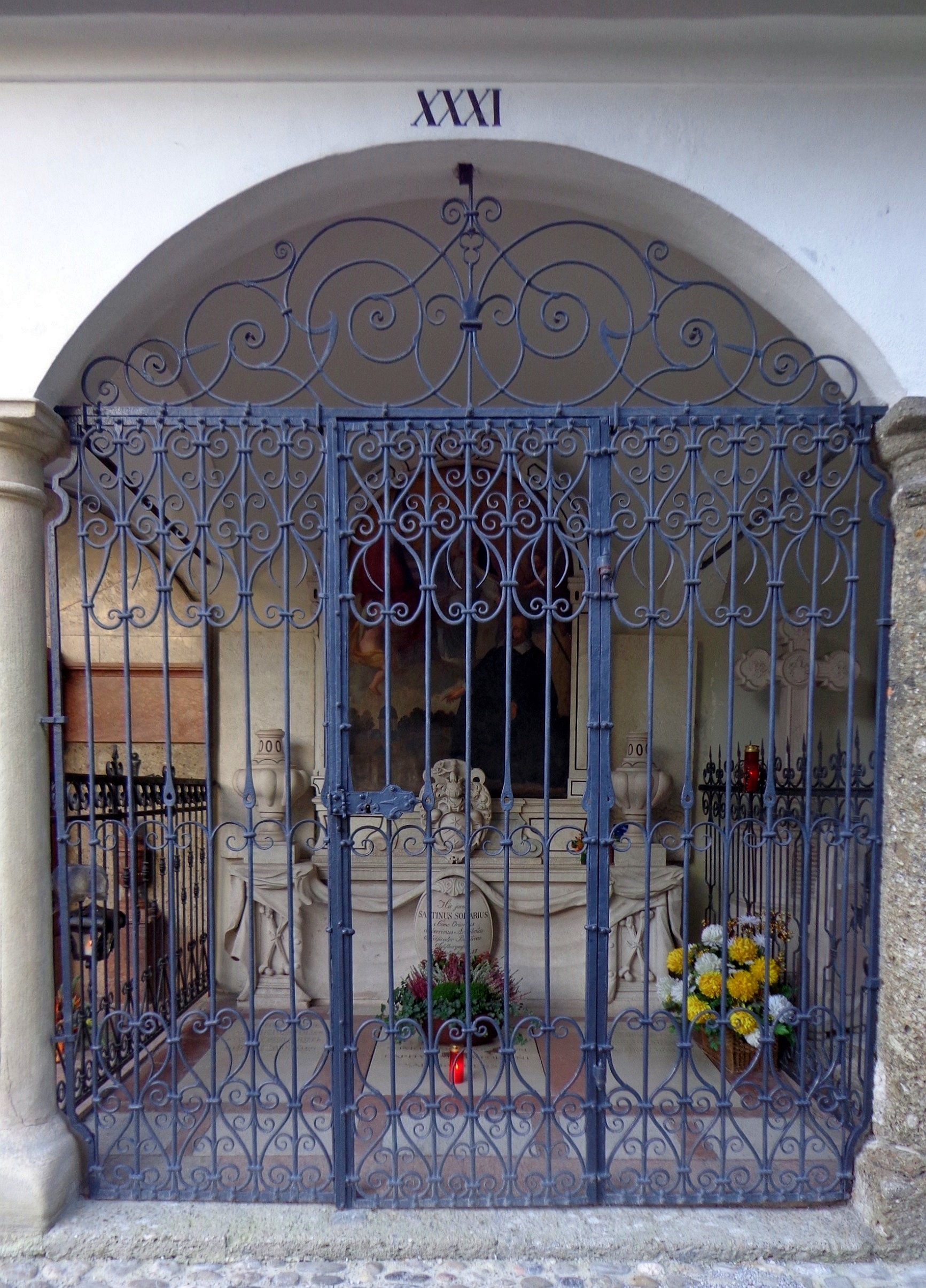 Crypt 31 (Petersfriedhof Salzburg): burial place of the architect of Salzburg Cathedral, Santino Solari, and the member of the Chapter of Salzburg Cathedral